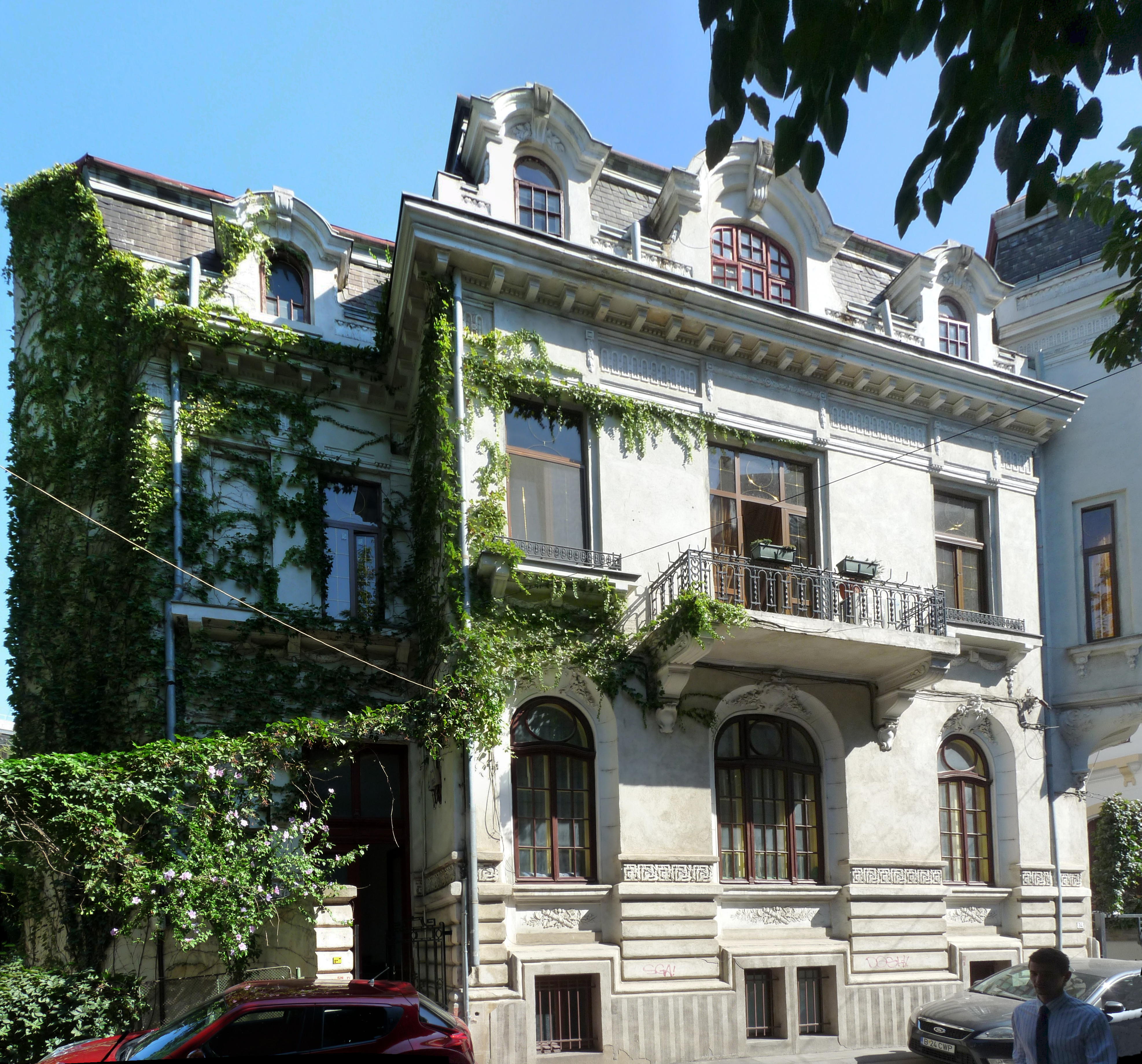 Dumitru Stoenescu house in Vasile Lascăr street, Bucharest, RomaniaRomână: Casa Dumitru Stoenescu din str. Vasile Lascăr, București, România